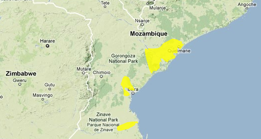 Map of ecoregion AT0906 - Zambezian coastal flooded savanna